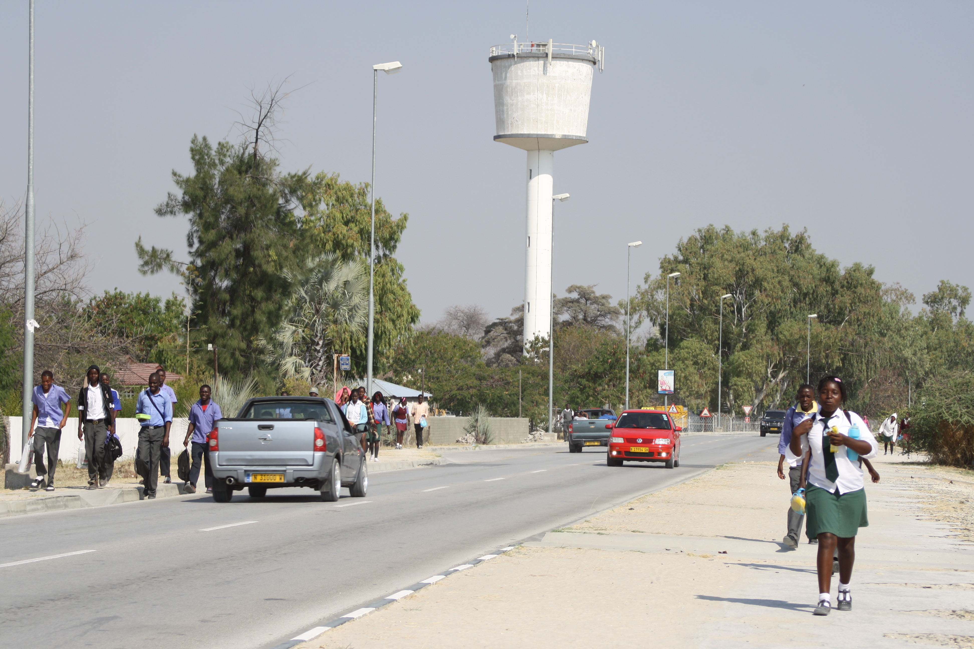 Mandume Ndemufayo Street in Ongwediva, Namibia